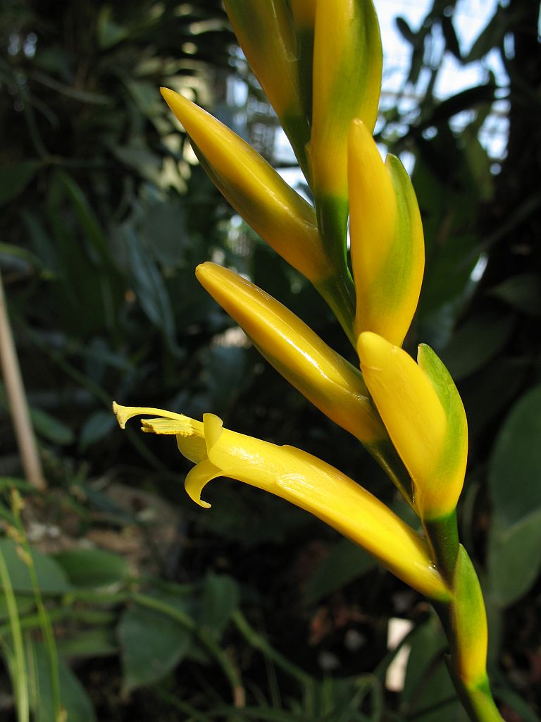 Vriesea bleherae f. atroviolaceifolia in cultivation at the Botanical Garden of Heidelberg, Germany.